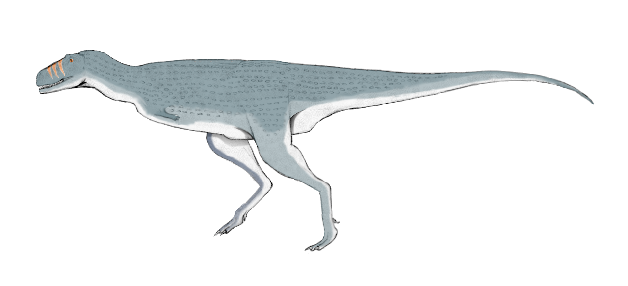 Life restoration of Quilmesaurus curriei, a carnivorous dinosaur from Argentina.